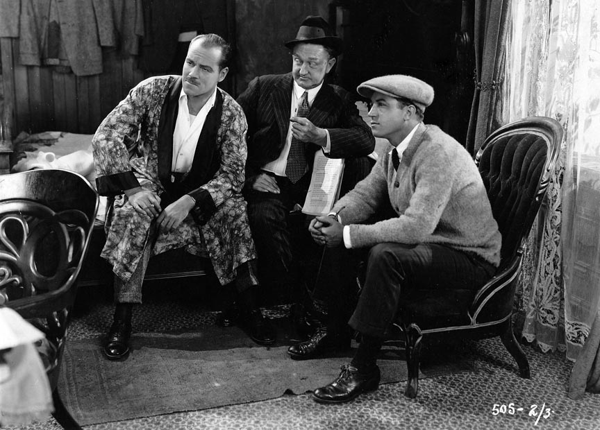 Left to right: Jack Holt, Wallace Worsley (director), and Charles Edgar Schoenbaum (cinematographer) on the set of Nobody's Money (1923) - publicity still